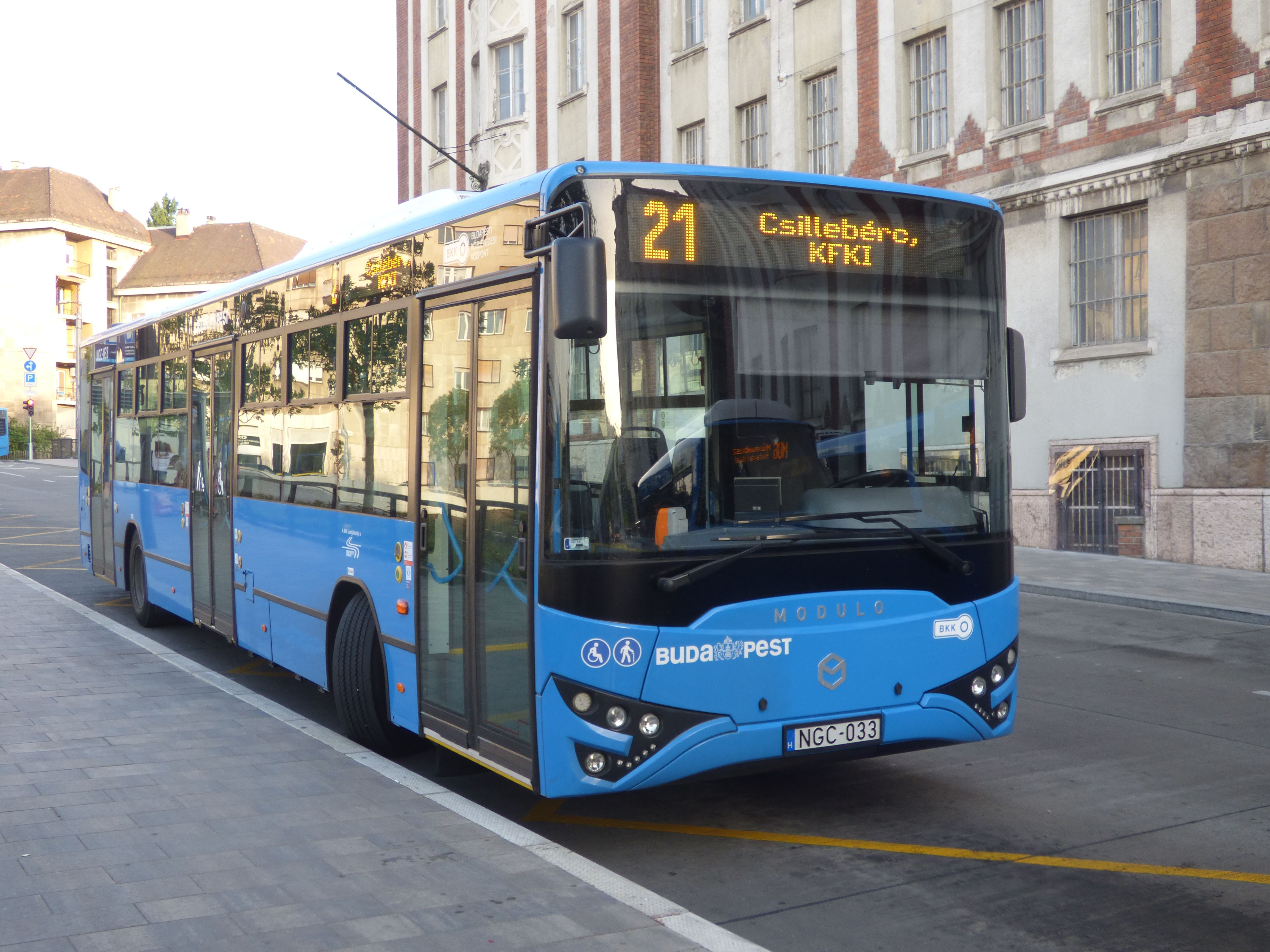 Modulo M108d bus (reg. NGC-033) on line number 21 (Budapest)